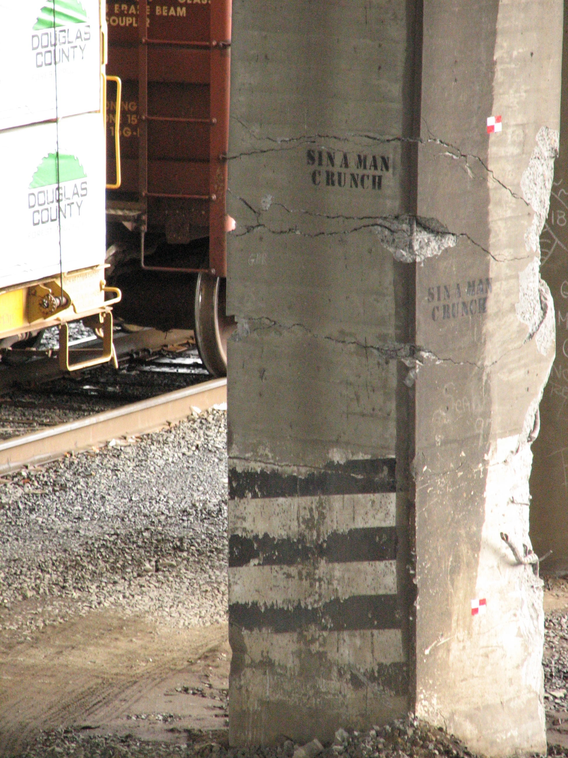 An overpass column in Portland, Oregon damage from a Union Pacific train crash